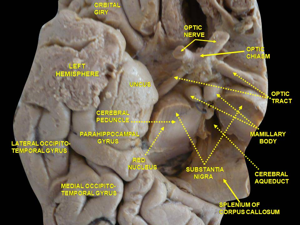 Anatomical dissections